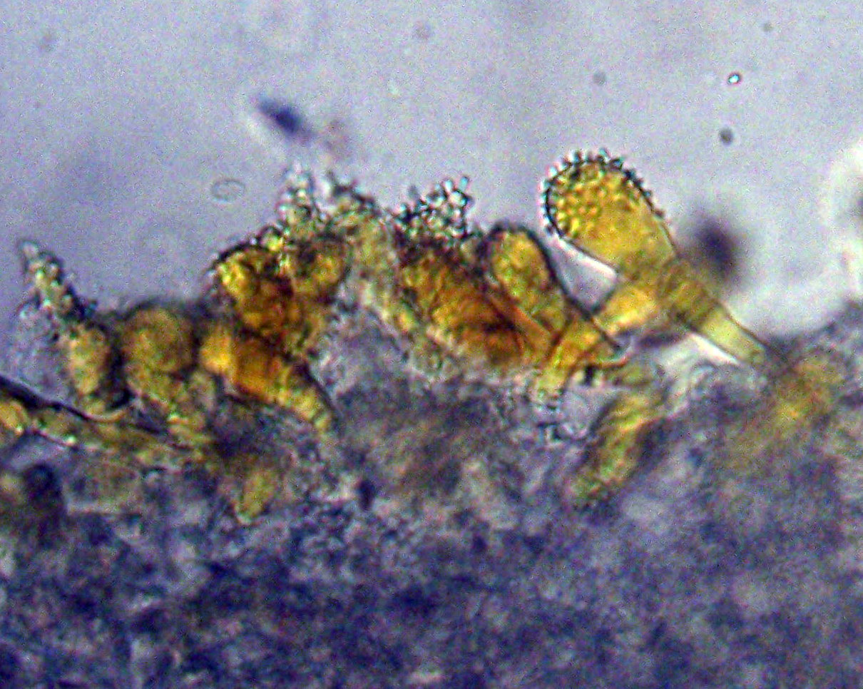 A microscopic view of spiny cystidia from the mushroom Mycena aurantiomarginata (Fr.) Quél. The original photo was cropped, rotated, and had levels adjusted by the uploader.